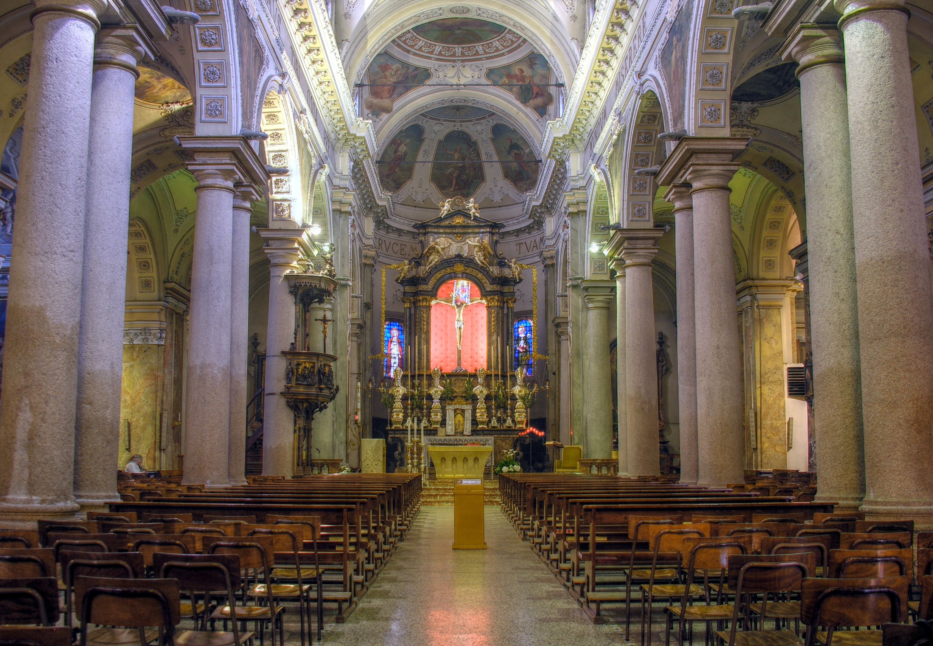 Castano Primo, MI, Italy - San Zenone church, internal view